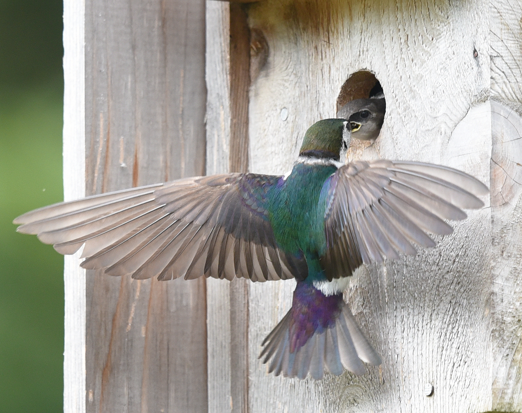 Male bring food to nest for young, Western Washington State